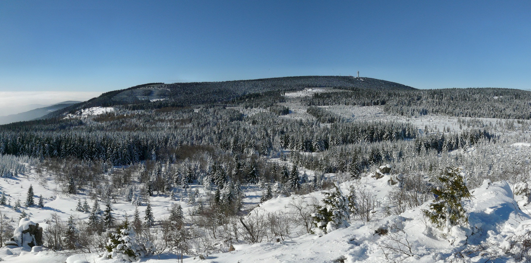 Ore Mountains: Na skalách, Klínovec and Macecha from Meluzína